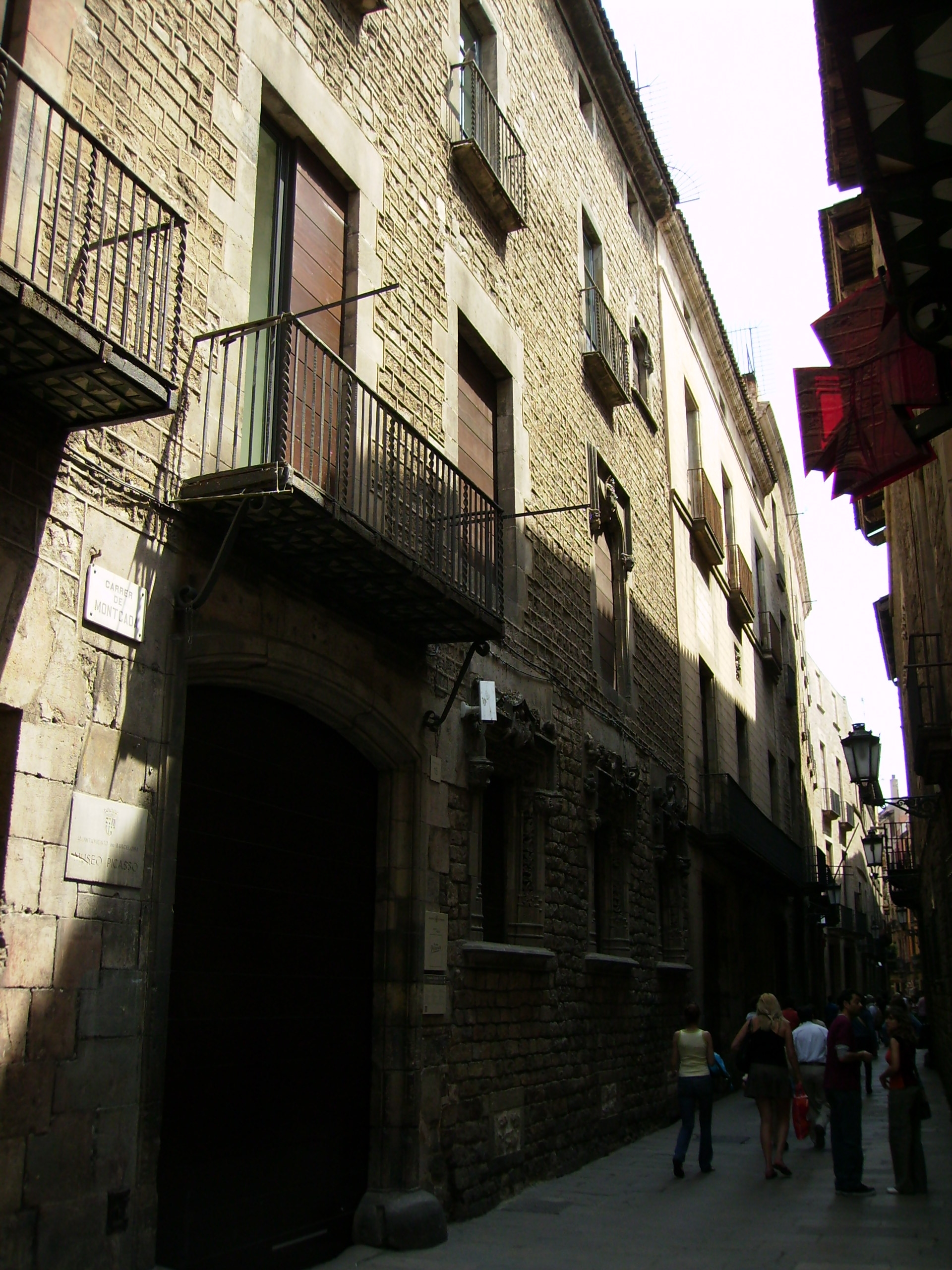 Montcada street in Barcelona (Catalonia)